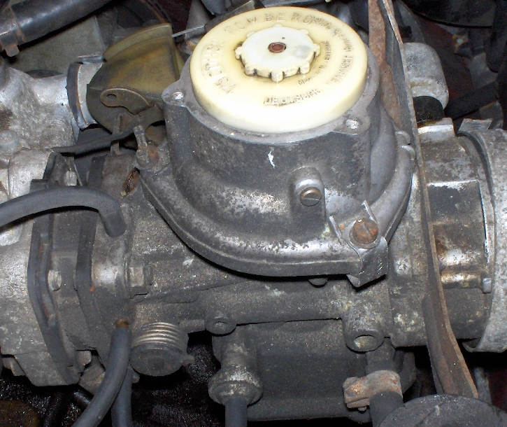 Stromberg carburetor in a SAAB 90.